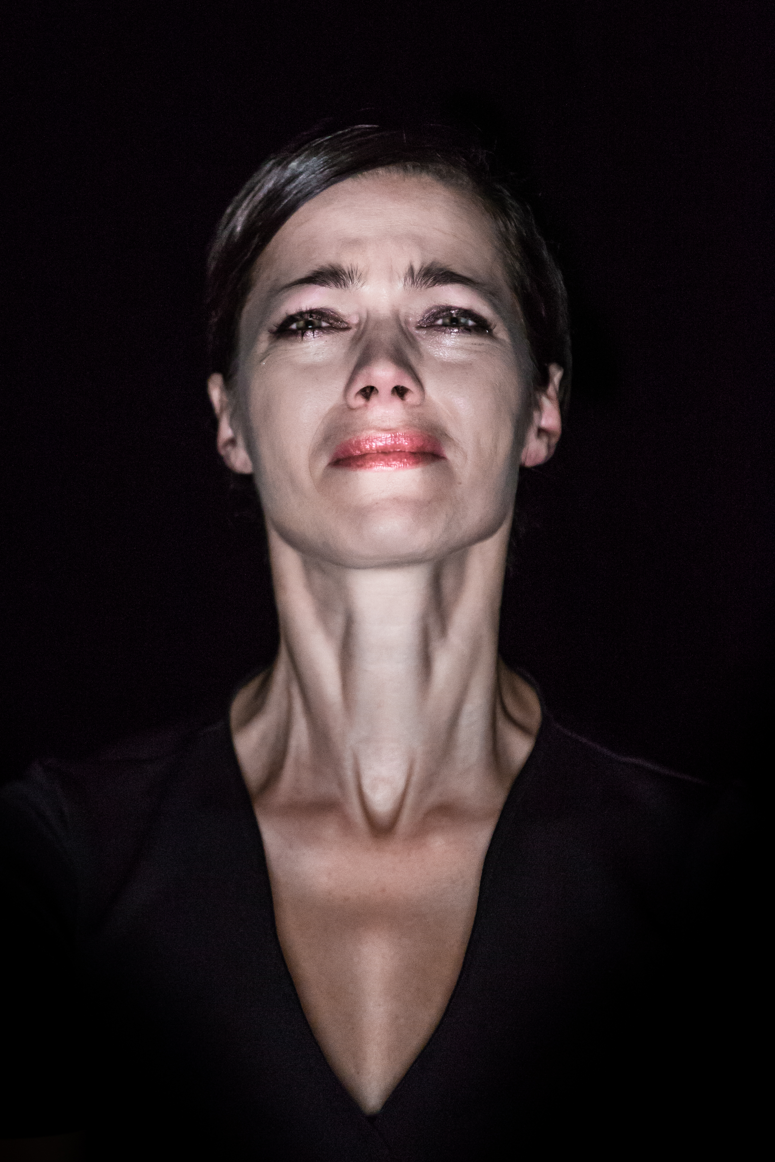 Phrasing the Pain (Nataša Novotná), choreography: Ann van der Broek, photo by Pavel Hejný